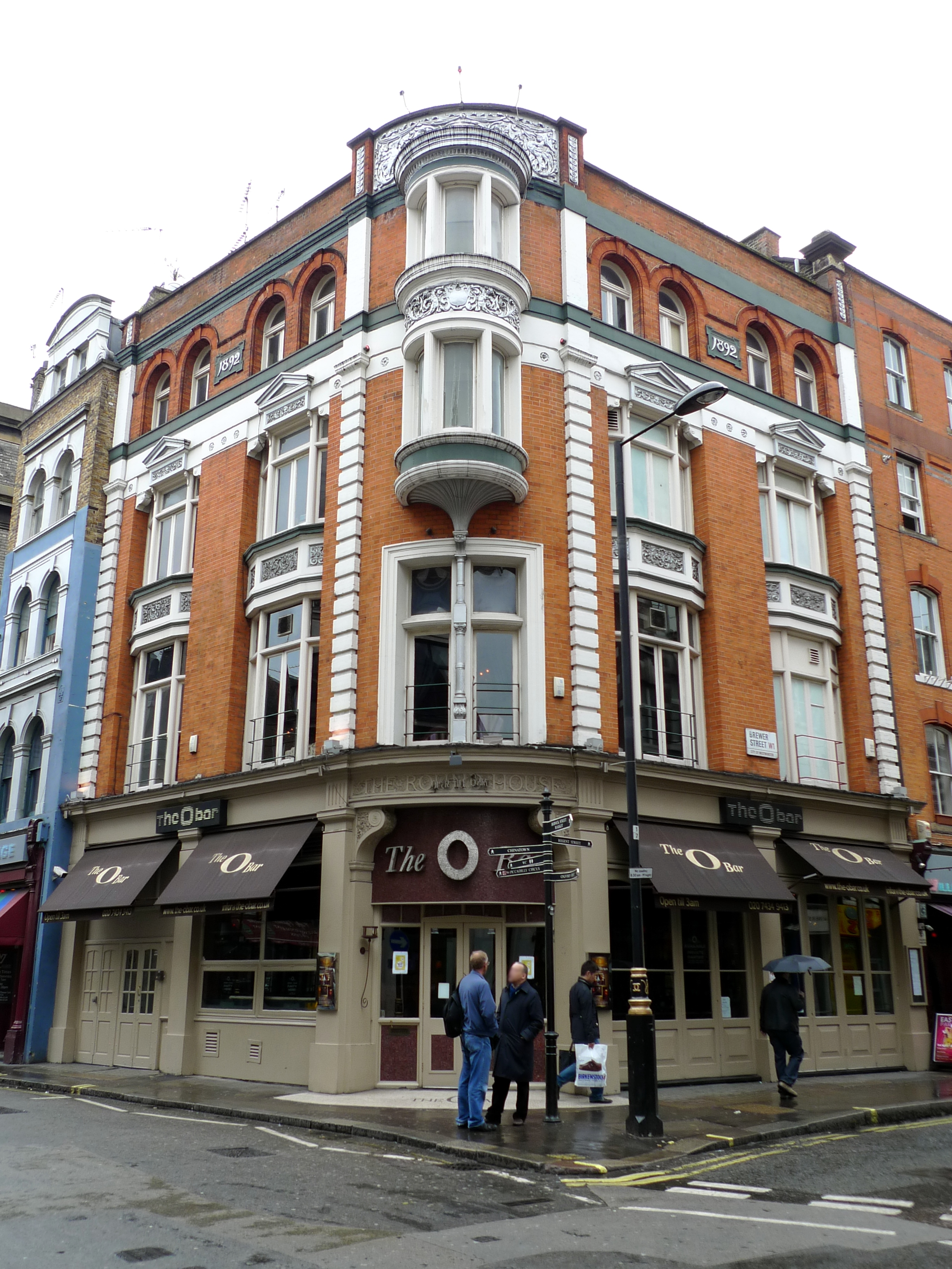 A bar on Wardour St, and formerly a pub. Address: 83-85 Wardour Street. Former Name(s): The Round House; The Blue Cross (on the same site). Owner: Soho Bars Group ( website ). Links: London Pubology